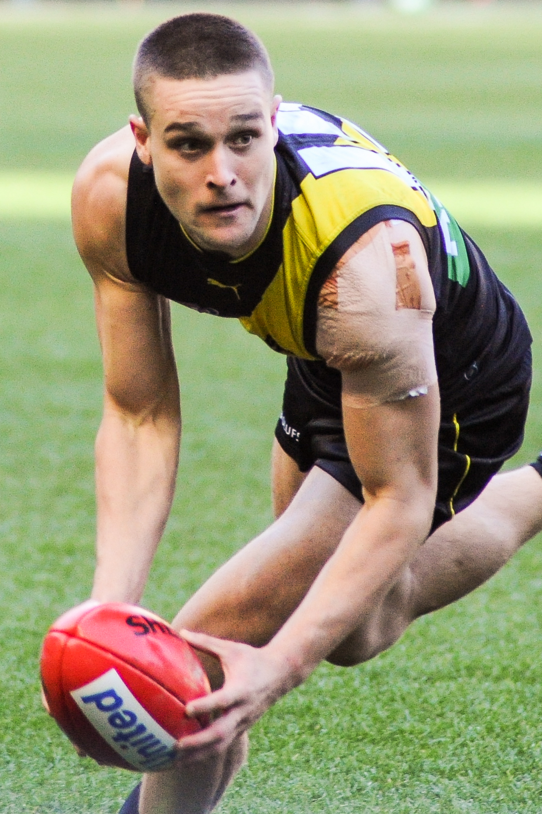 Jayden Short during the AFL round thirteen match between Richmond and Sydney on 17 June 2017 at the Melbourne Cricket Ground in Melbourne, Victoria.